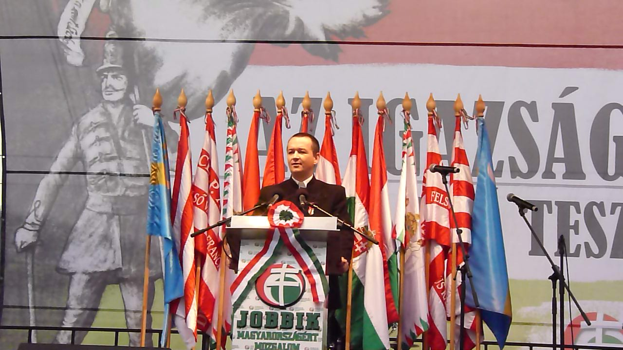 Live on the 15th of March, 2015. Budapest, Március 15-e tér. Jobbik Party. Apáti István, vice president of the Jobbik. ©© Derzsi Elekes Andor, Budapest, 2015, Published in the Metapolisz DVD line. You are authorised to use this photo under Creative Commons – even for commercial, for profit purposes. The photo must be attributed to Derzsi Elekes Andor. All of the photos and vids in the Metapolisz DVD line are under Creative Commons and can be used even for commercial – for profit – purposes. Recommended Citation Derzsi Elekes Andor: Metapolisz DVD line